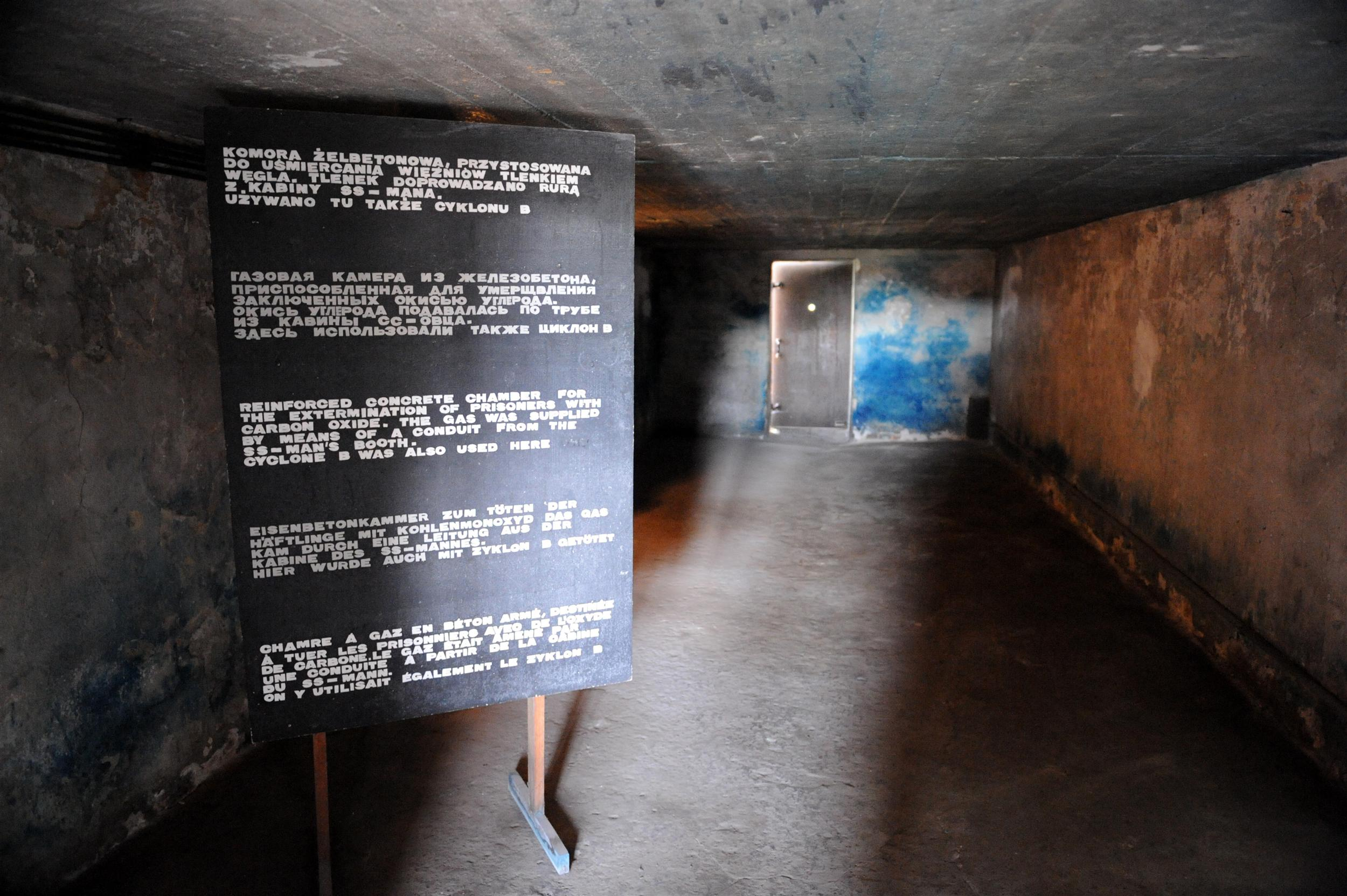 Reinforced concrete chamber, designed for killing prisoners by carbon monoxide. Carbon monoxide was fed with a tube from the SS-man's booth. It also used Zyklon B.